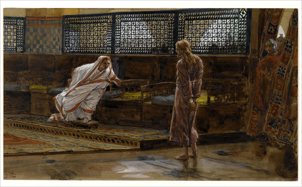 Christ before Pilate from the series The Life of Christ by James Tissot, Brooklyn Museum